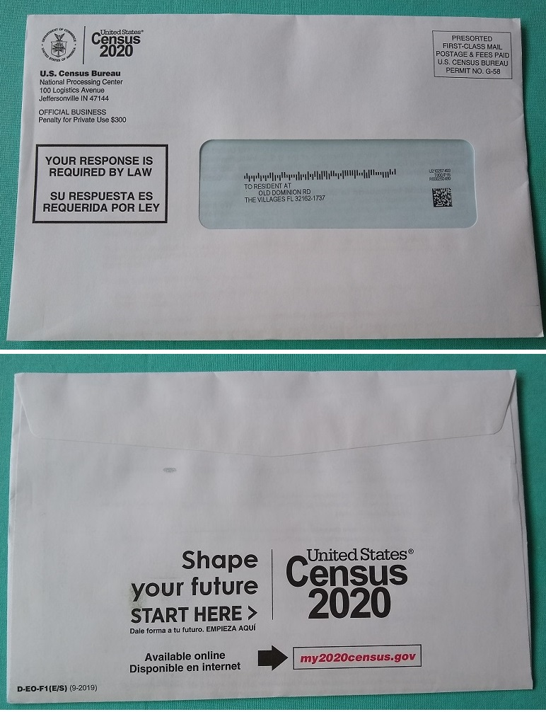 The envelope used to hold the invitation to respond to the 2020 Census.